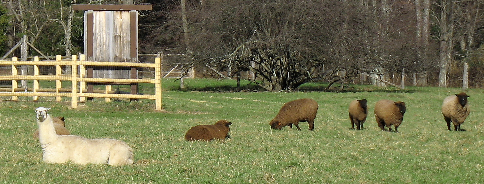 The llama guarding his flock of sheep